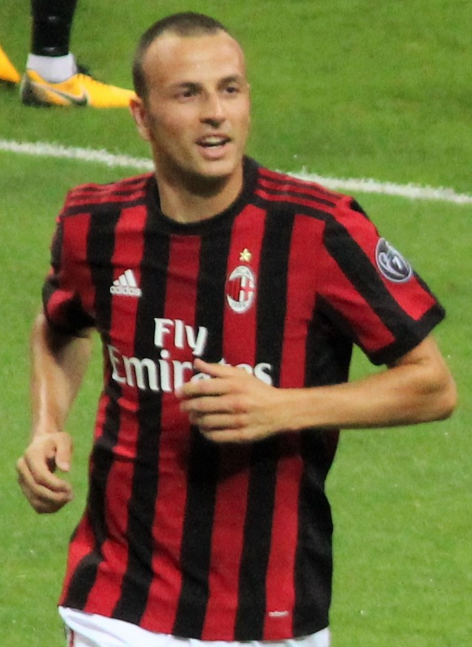 luca antonelli